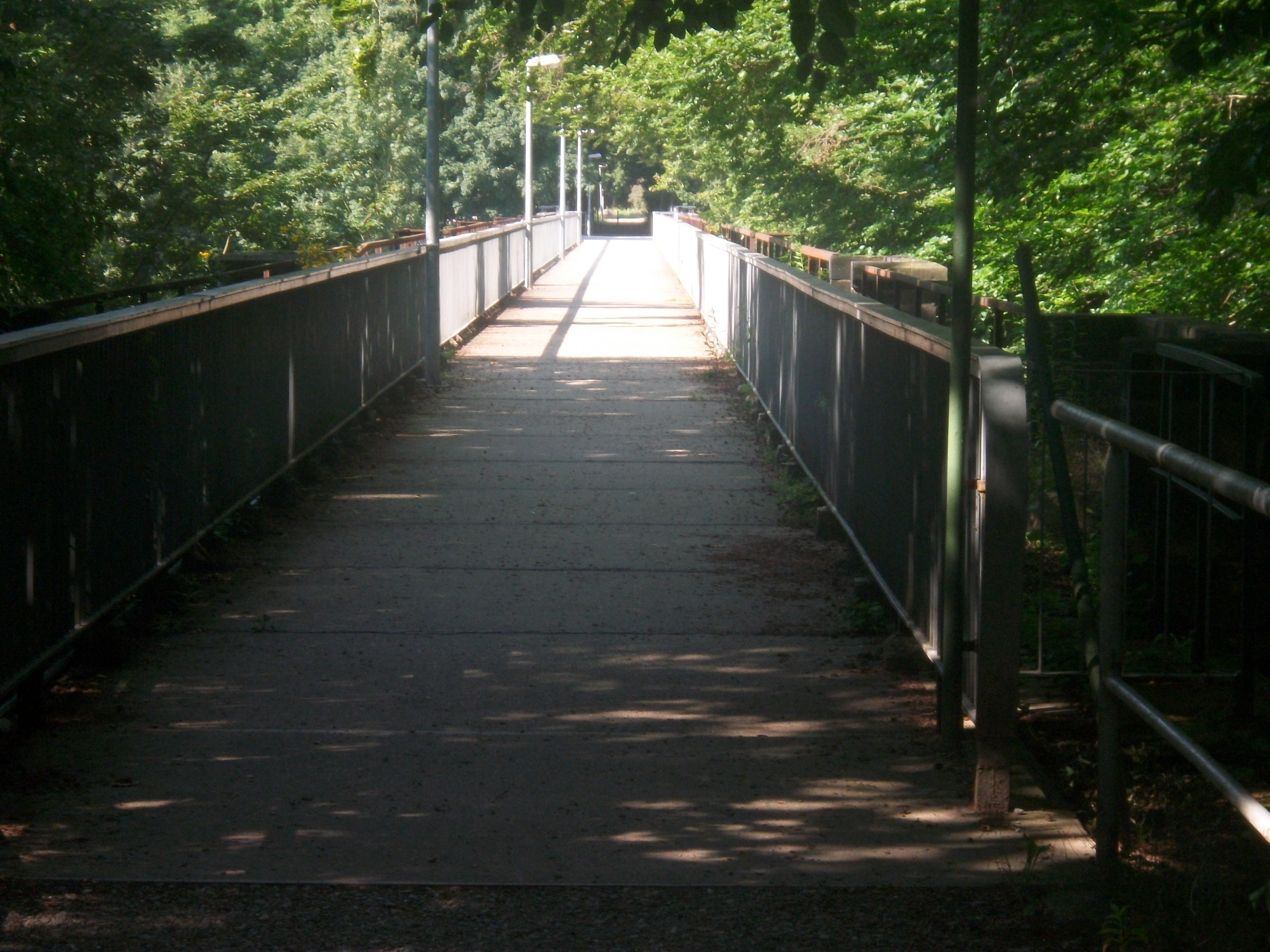 On the viaduct of Rabenstein.